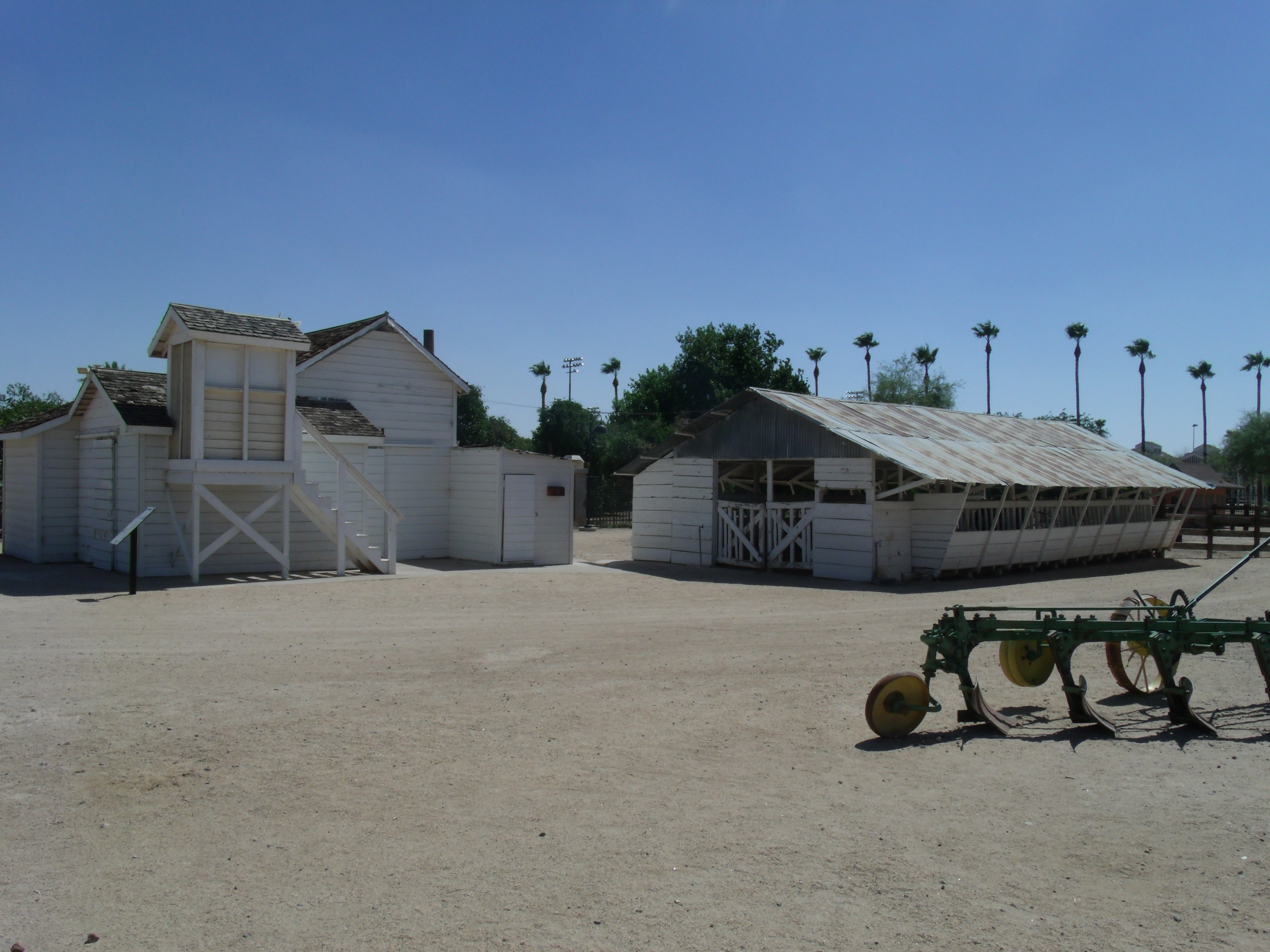 Dairy Barn of Historical Sahuaro Ranch, Glendale, Arizona